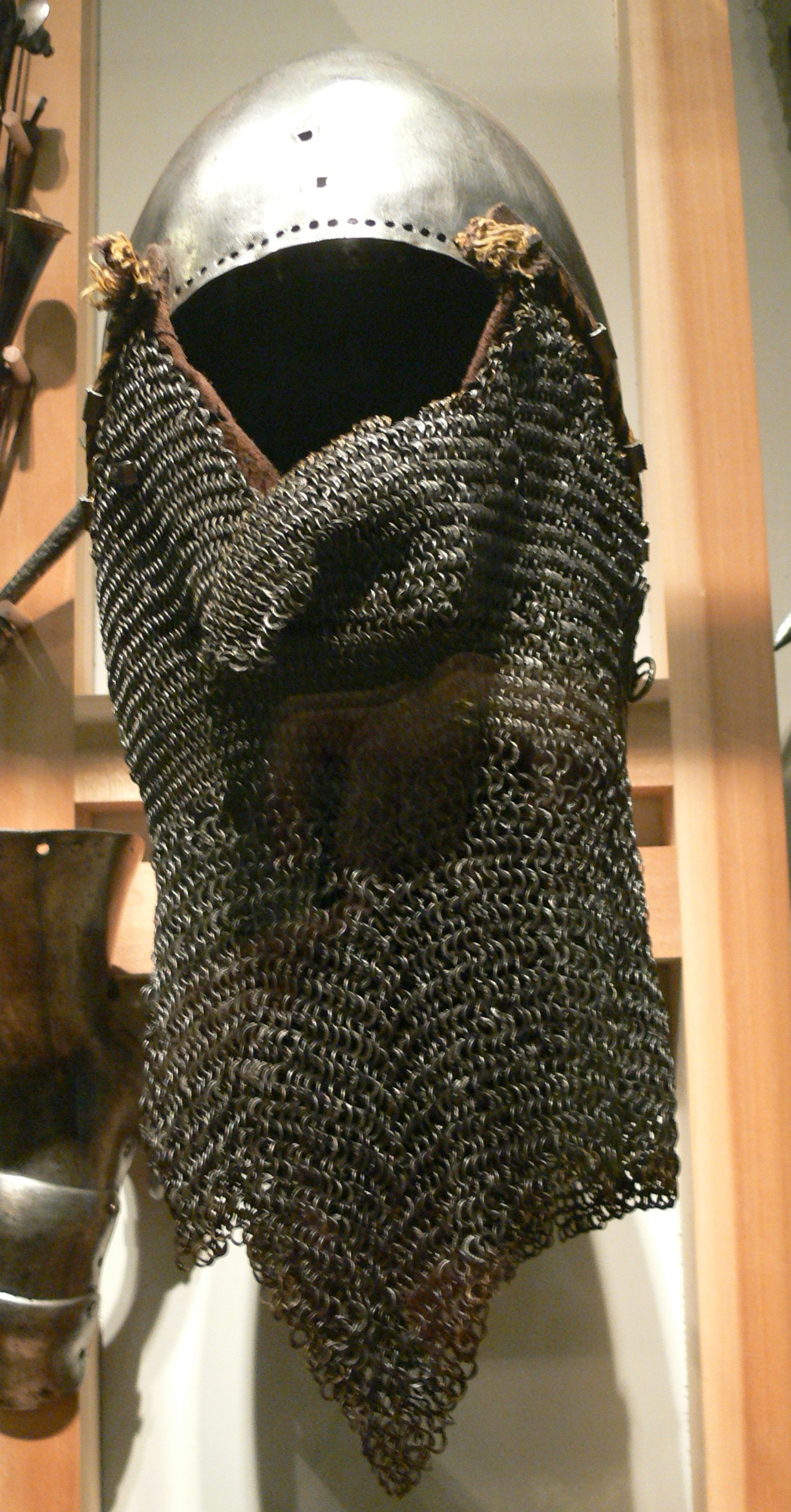 German Historical Museum ( Berlin ). Bowl-shaped helmet ( bascinet ) with mail shirt ( 1360s ).